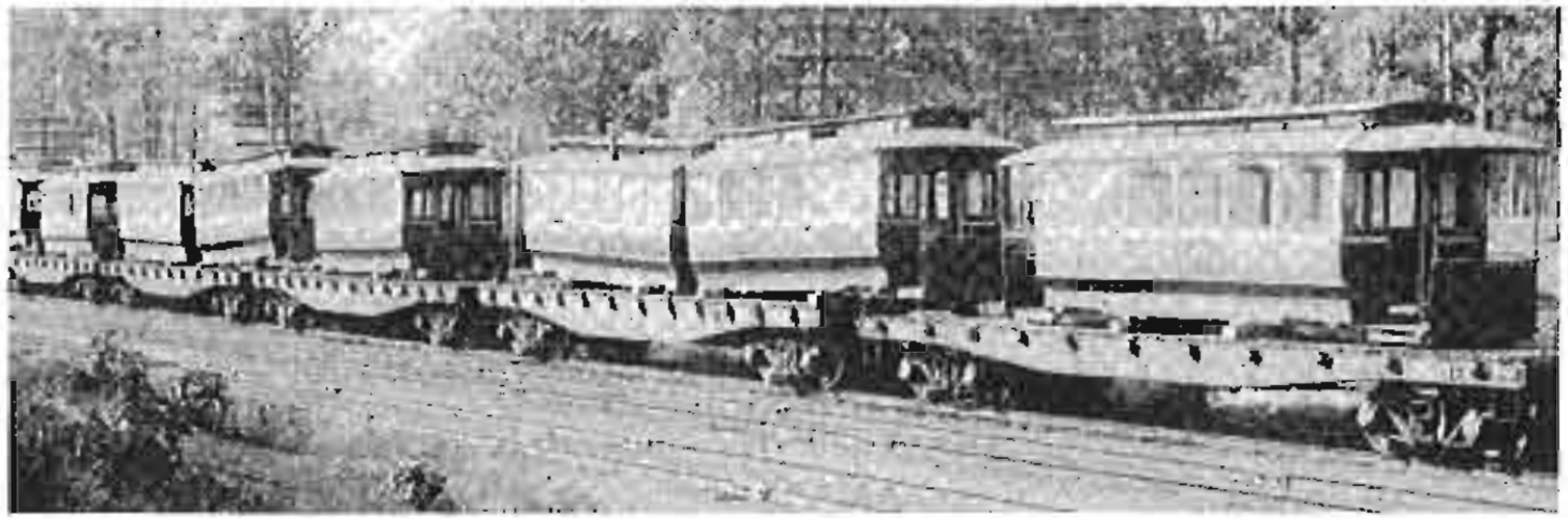 Old Toronto street cars en route to Haileybury, 1922. A large forest fire wiped out most of the town of Haileybury, Ontario in 1922. The Toronto Transit Commission (TTC), with many retired street cars in its yards, sent many old car bodies to serve as houses during the reconstruction. Some of these cars remained for years, and one has recently been restored and is in the museum at Haileybury.